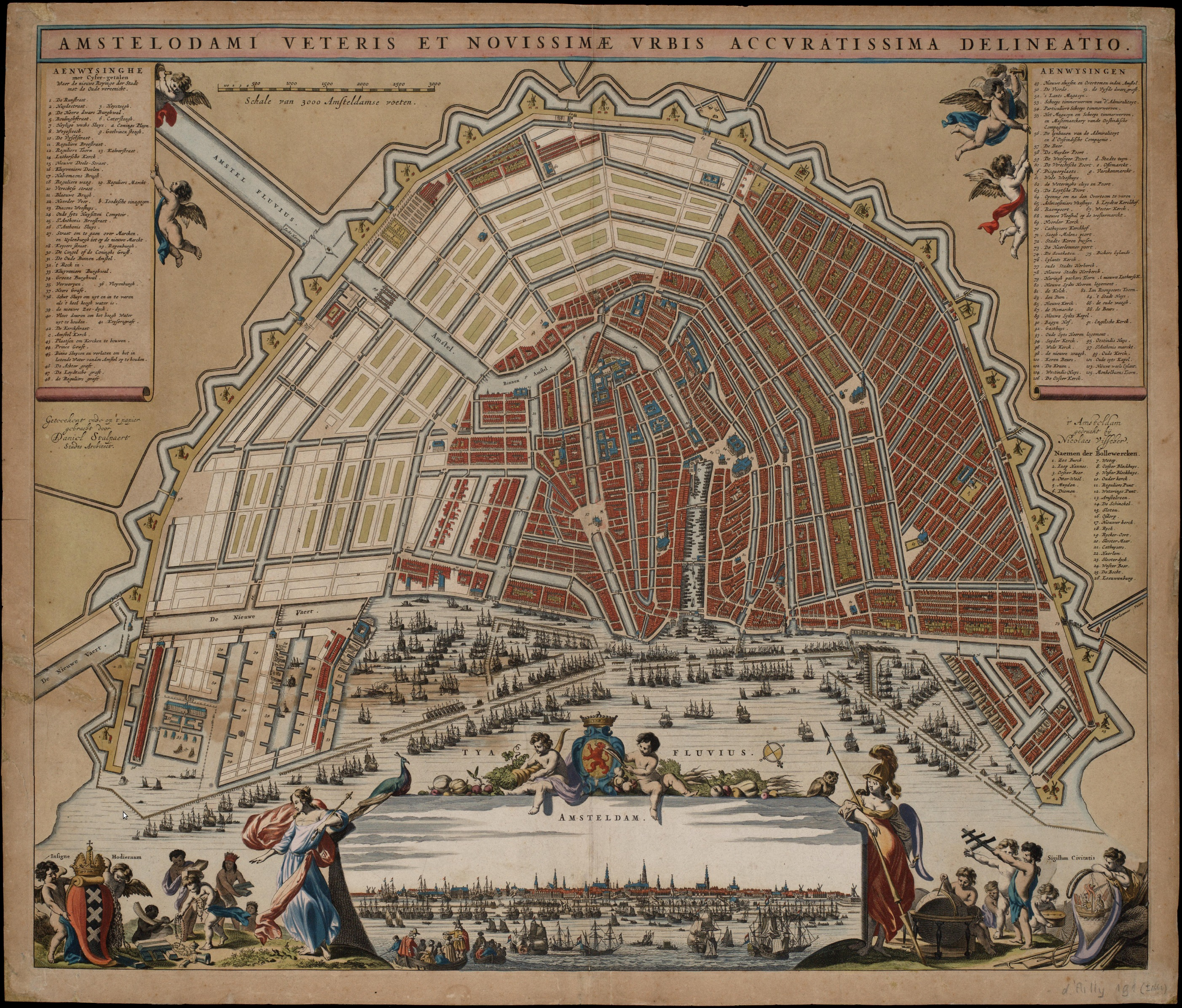 Map of Amsterdam in 1662, with a panorama of Amsterdam included.